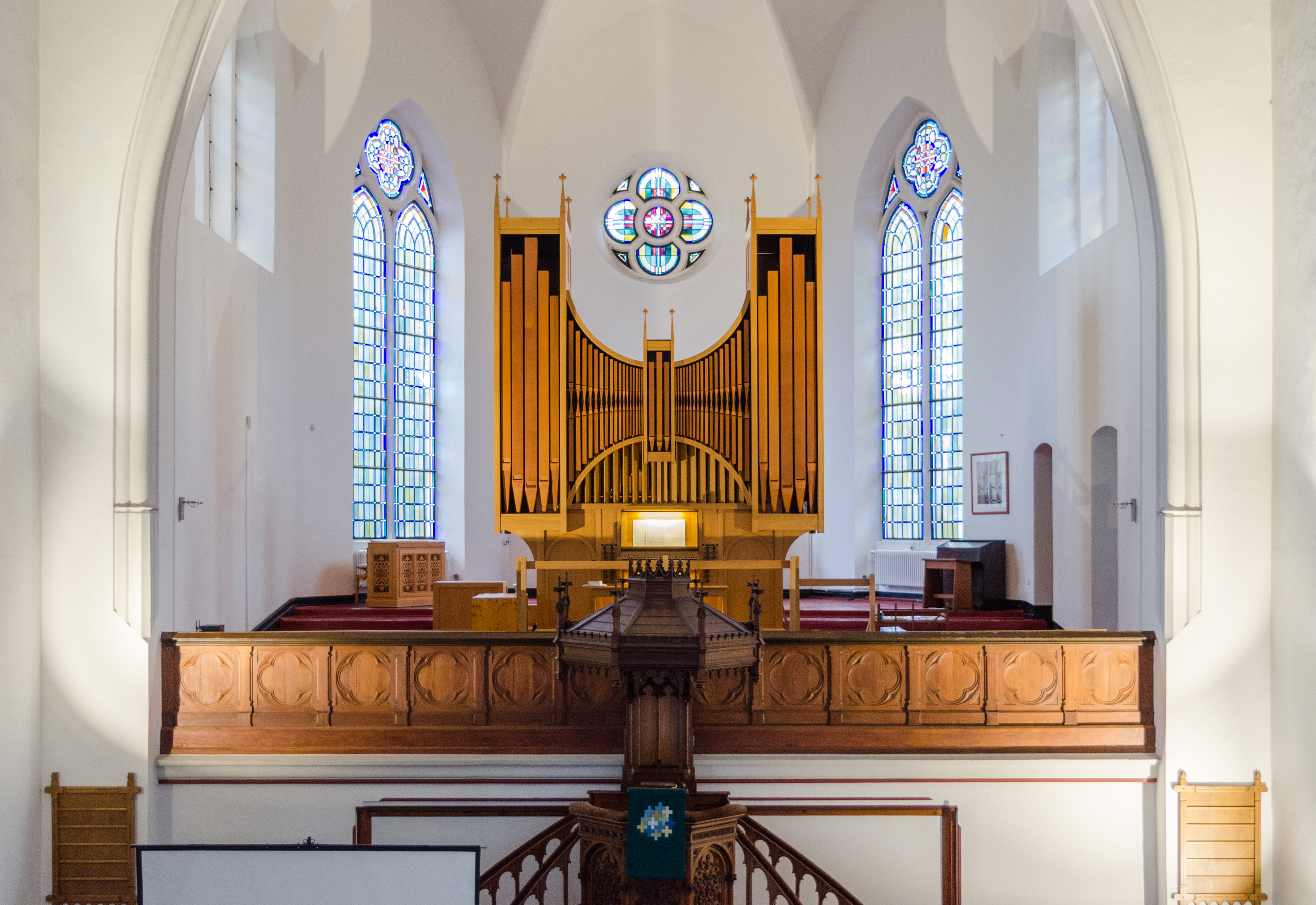 Duisburg (North Rhine-Westphalia, Germany) – borough Hamborn, district Marxloh – Protestant Holy Cross Church – interior – southern gallery with the new pipe organ